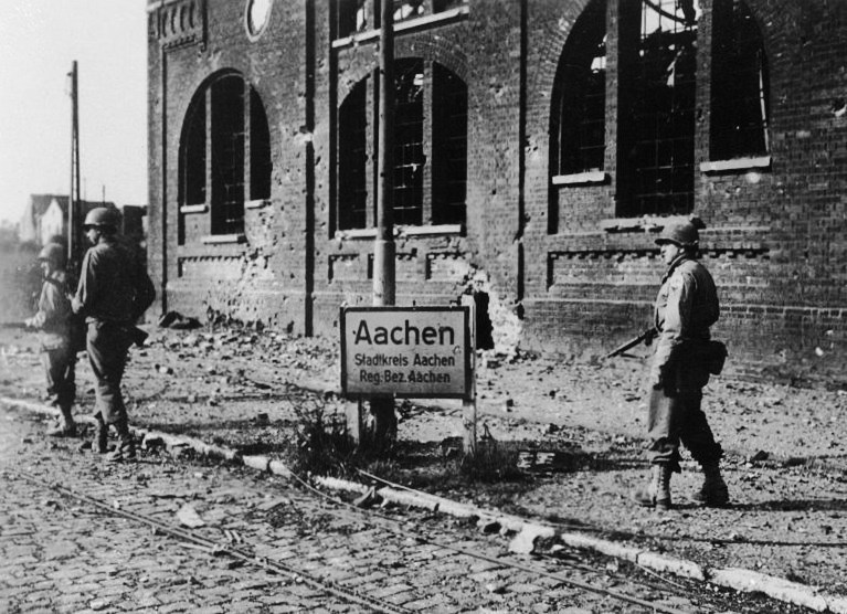 Soldiers of the 504th Parachute Infantry Regiment move through Aachen, Germany. Aachen was the first large German city to be taken by the Allies.